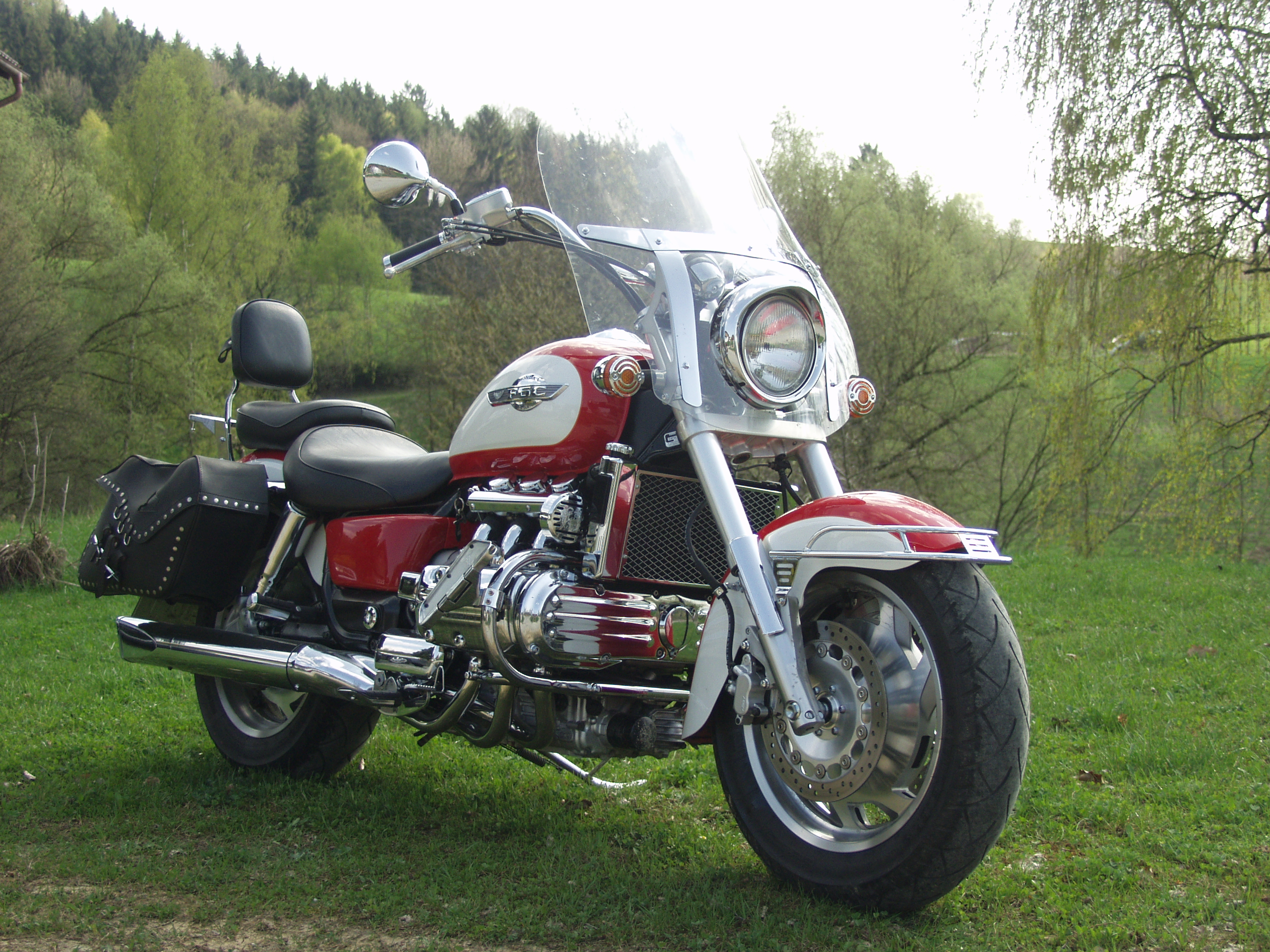 Honda motorbike F6C Tourer (Valkyrie Tourer) in two-tone color combination Pearl Red/Pearl Ivory